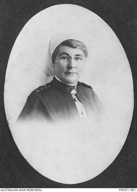 PORTRAIT OF MATRON ROSE CREAL OF THE AUSTRALIAN ARMY NURSING SERVICE (AANS), WHO WAS THE AIF PRINCIPAL MATRON, OPERATING WITH NO. 14 AUSTRALIAN GENERAL HOSPITAL (14AGH), ABBASSIA. (DONOR: P. MCCARTHY)